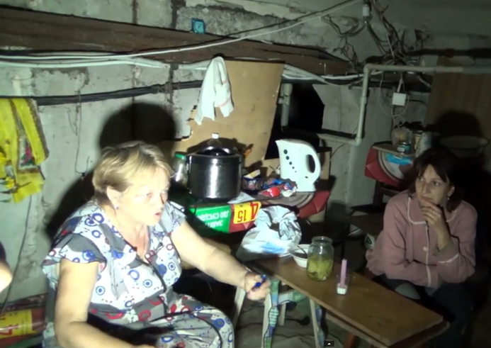 Yasynuvata residents hiding in a makeshift bomb shelter.